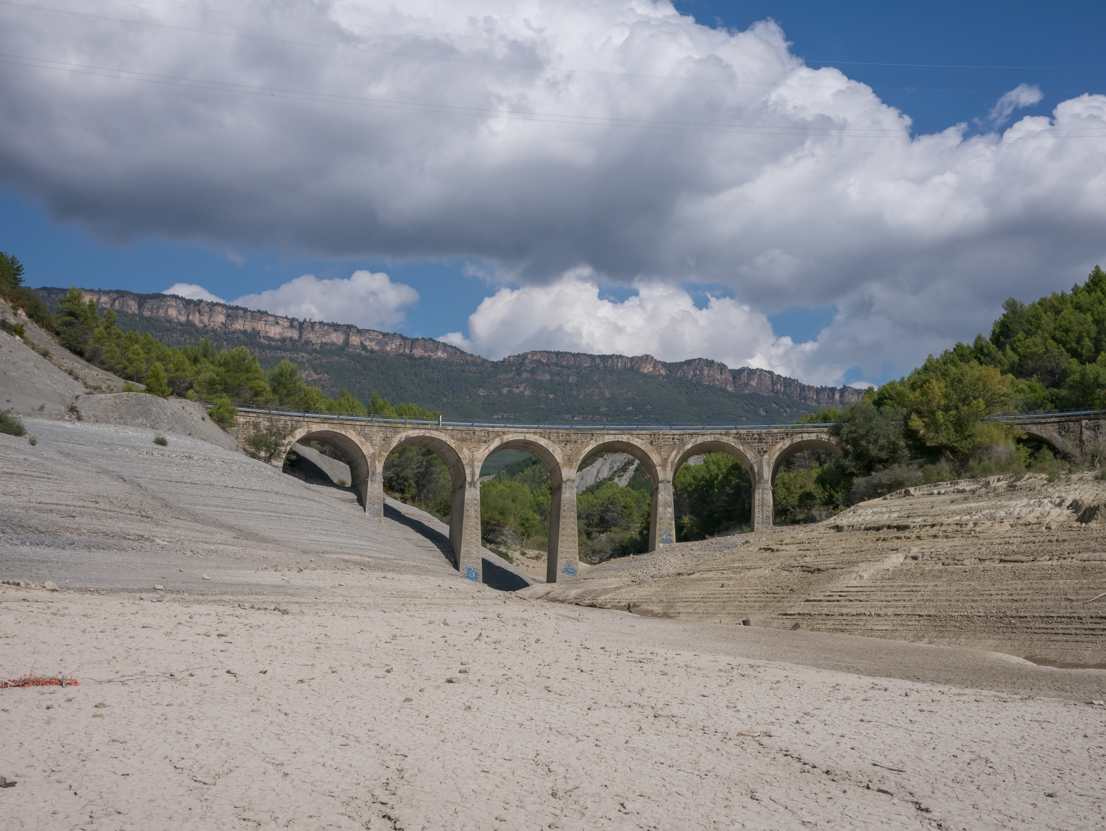 Low water level at the Yesa reservoir. Bridge of the N240 state road. Aragón, Spain